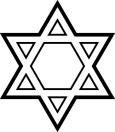 Magen David in double lines black